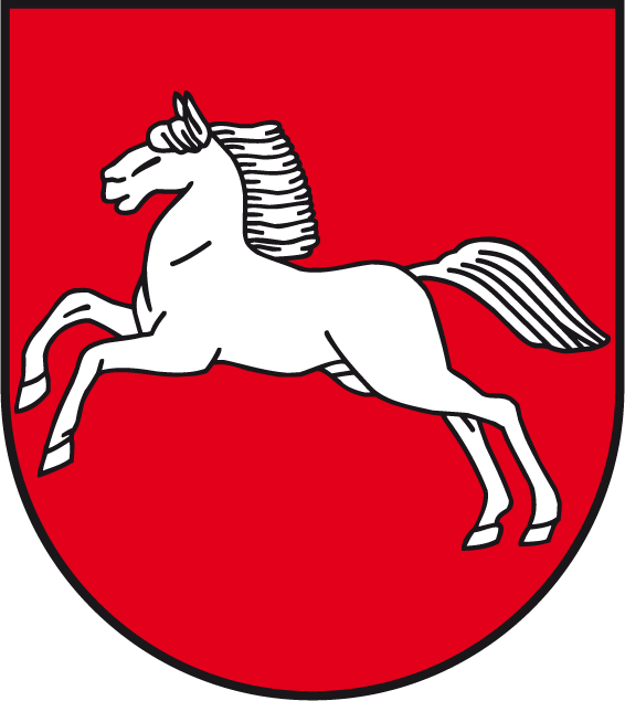 Coat of arms of Free State of Braunschweig